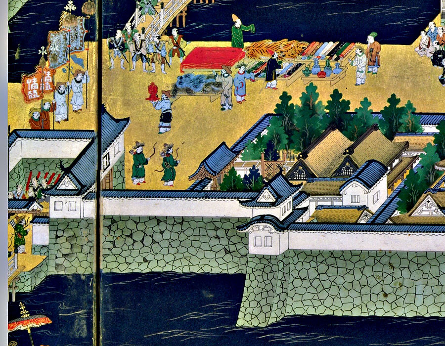 "View of Edo" (Edo zu) pair of six-panel folding screens (17th century). Upper middle of first panel, left screen. Central enciente of Edo Castle, Castle Tower, Sannomaru 三の丸, Oote Gate 大手門.